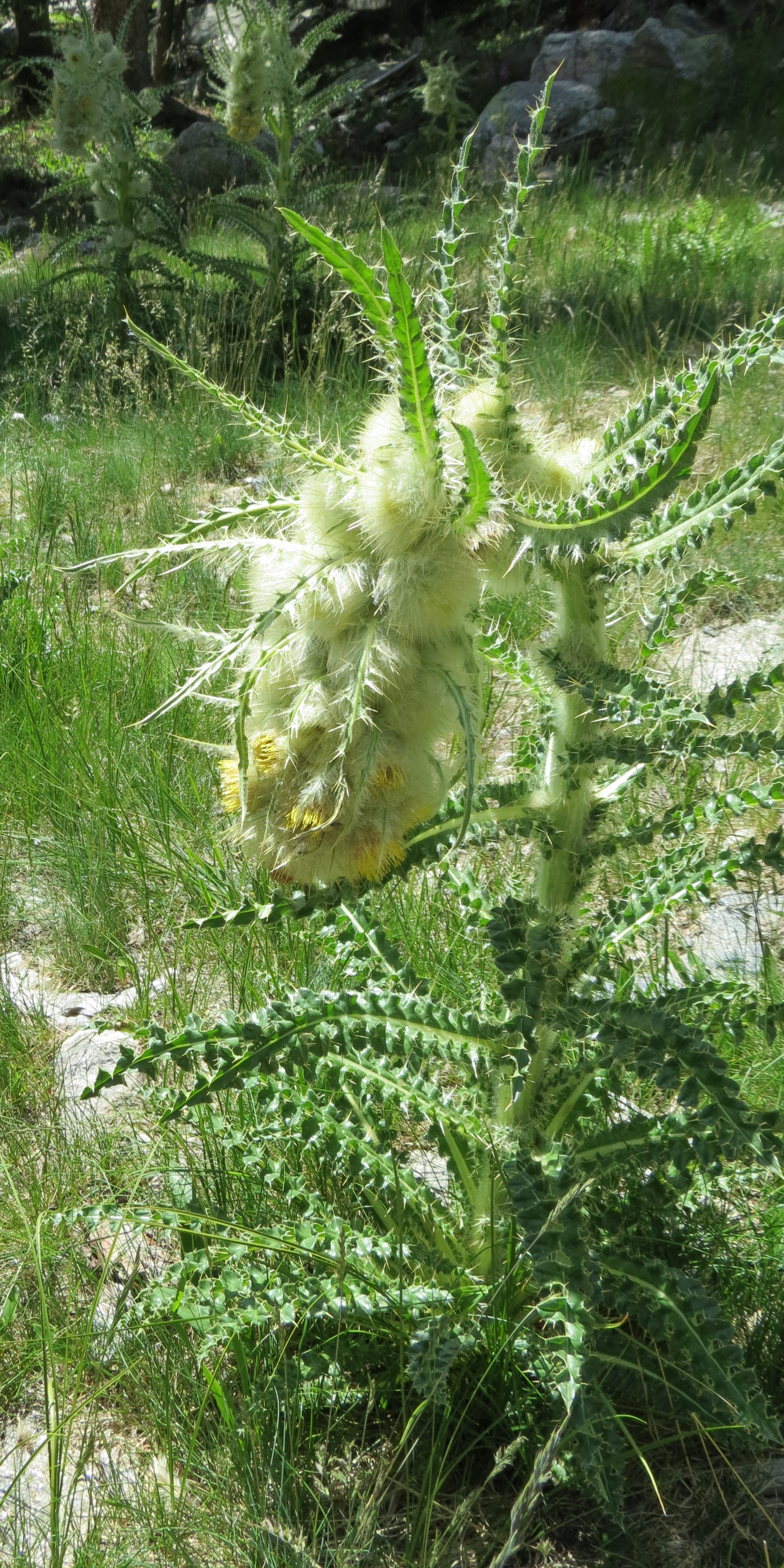 Blooming plant of Eaton's Thistle or Mountaintop Thistle, Cirsium eatonii (A. Gray) B. L. Robinson var. eriocephalum (A. Gray) Keil. Ski Santa Fe, Santa Fe County, New Mexico, U.S.A., elevation about 3400 m. Thanks to Patrick Alexander for ID.